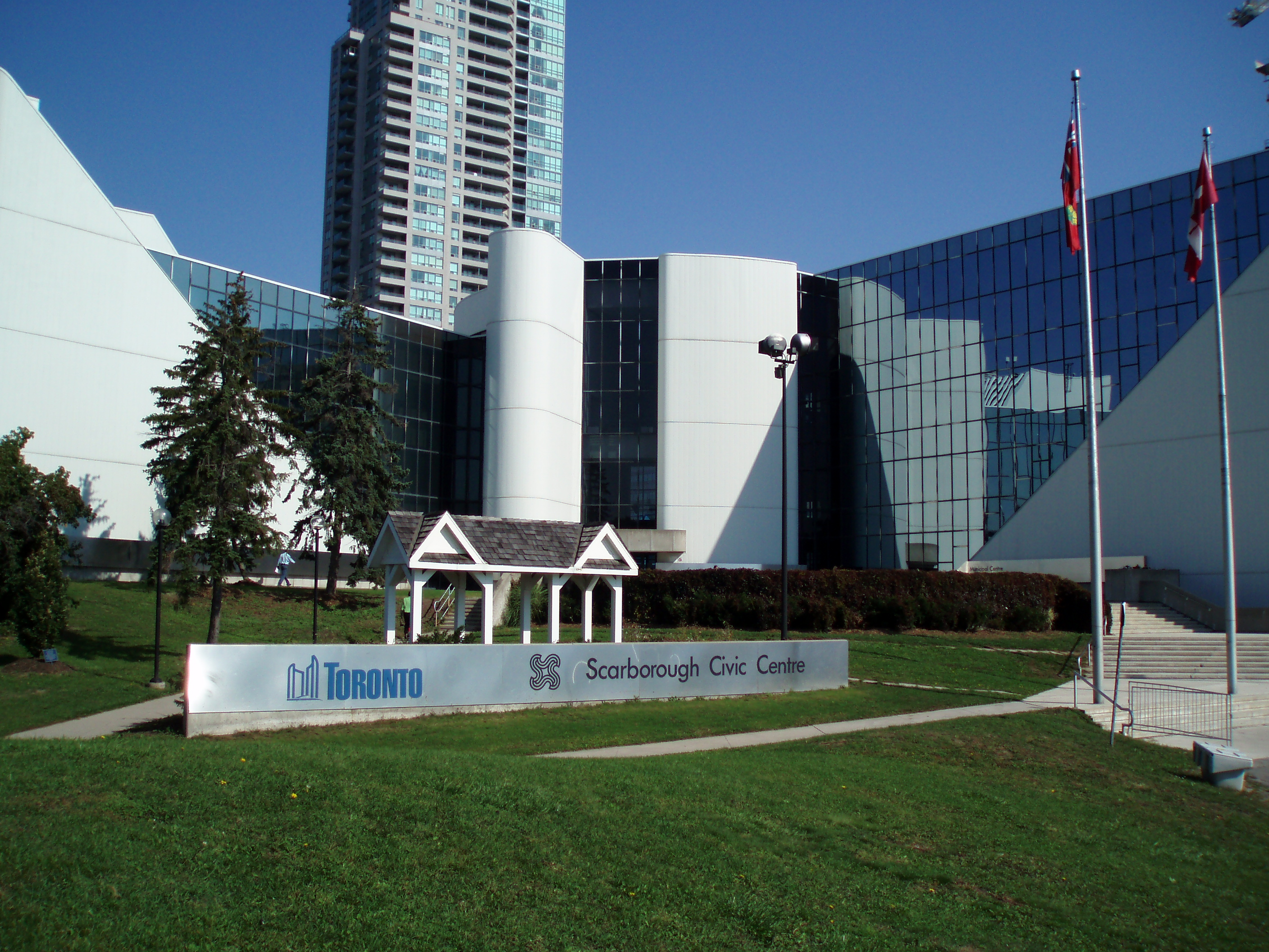 Scarborough Civic Centre, Canada